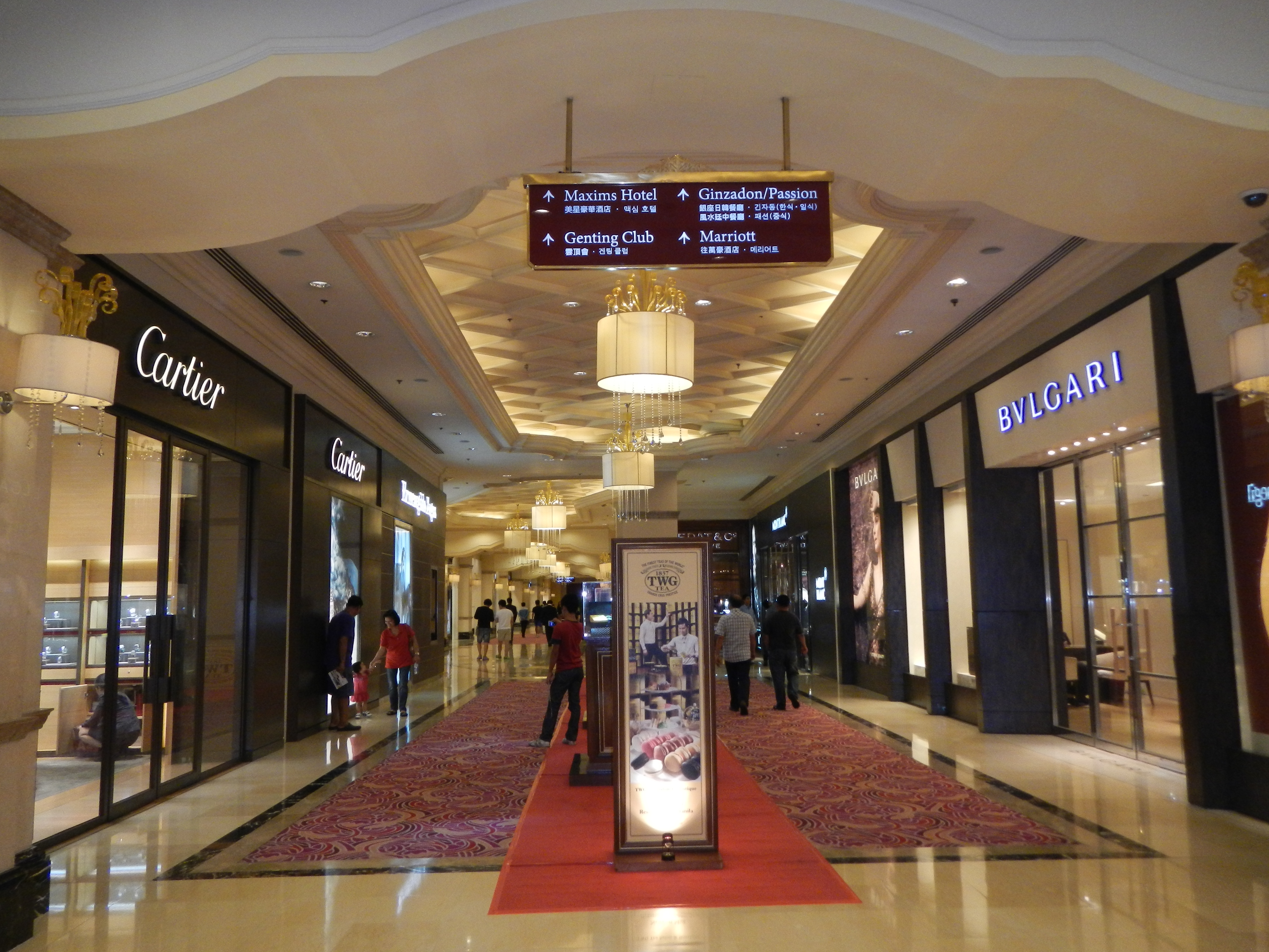 Resorts World Manila[1] is a casino resort, located in Newport City, opposite the Ninoy Aquino International Airport (NAIA) Terminal 3, in Pasay[2], Metro Manila, Philippines. The resort is a joint venture between Alliance Global Group and Genting Hong Kong. The project, occupying part of a former military camp near Manila’s airport, has three hotels with 1,574 rooms, a 30,000 square meter (323,000 square feet) casino and a 30,000 square meter shopping mall.[1] Although the soft launch of the resort took place on 28 August 2009, the grand opening was scheduled on July 2010.[2] Resorts World Manila is the sister resort to Resorts World Genting, Malaysia and Resorts World Sentosa, Singapore.It is the only casino resort in the country until the opening of Solaire Resort & Casino in Entertainment City, Paranaque City on March 16, 2013.[3]Coordinates: 14°31'11"N 121°1'9"E [4] is a 7.8 hectare Entertainment Complex consisting of Marriott Hotel, Maxims Hotel, Remington Hotel, an upscale mall, premium cinemas, theater, and the country's largest casino.[5][6][7]Resorts World Manila to bring beloved fairy tale to life[8]